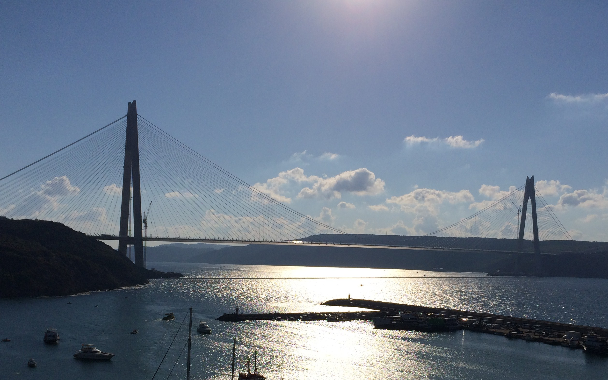 Yavuz Sultan Selim Bridge, view from Poyrazköy